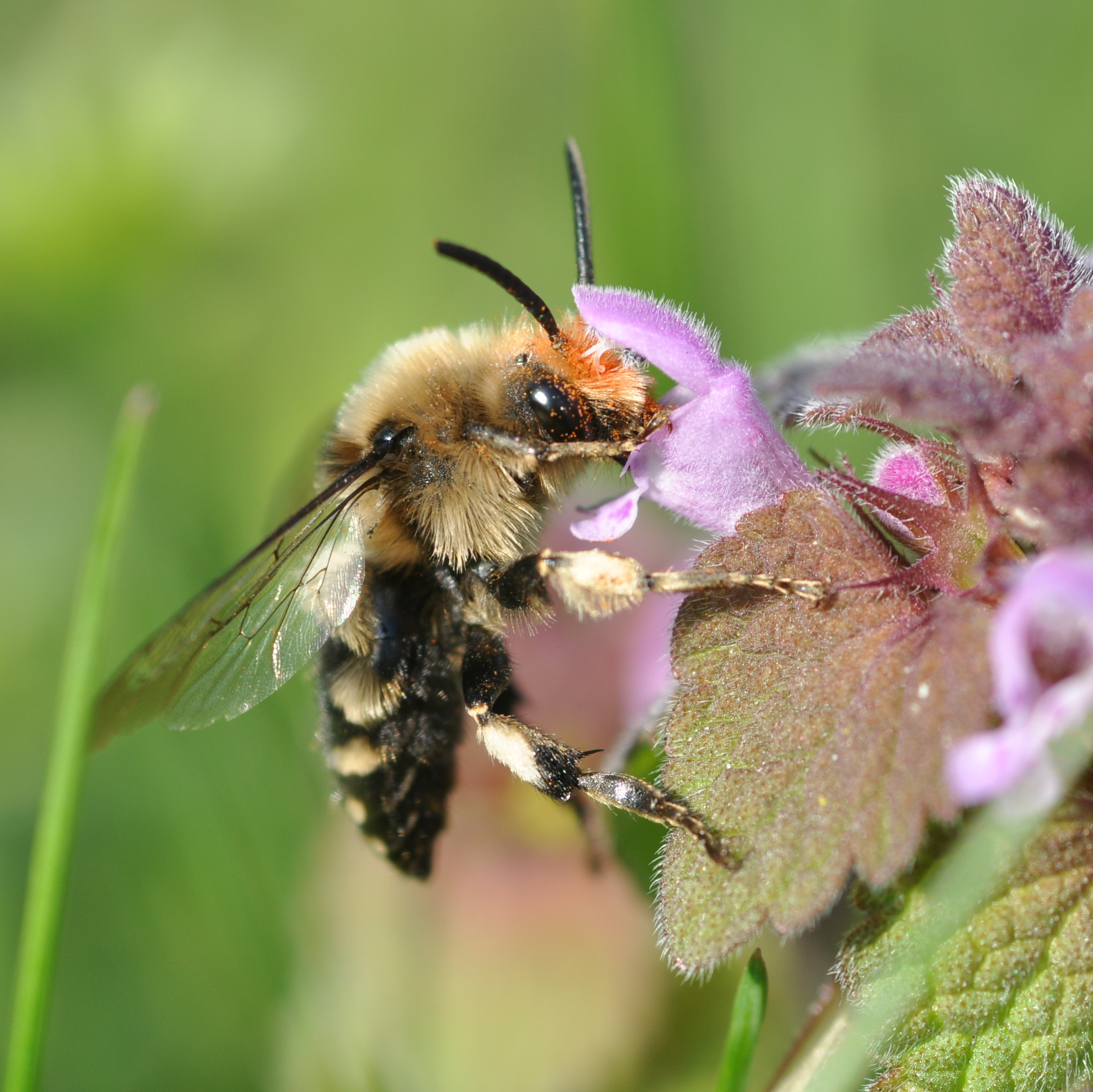 Cuckoo bee Melecta albifrons in Bahrenfeld, Hamburg.